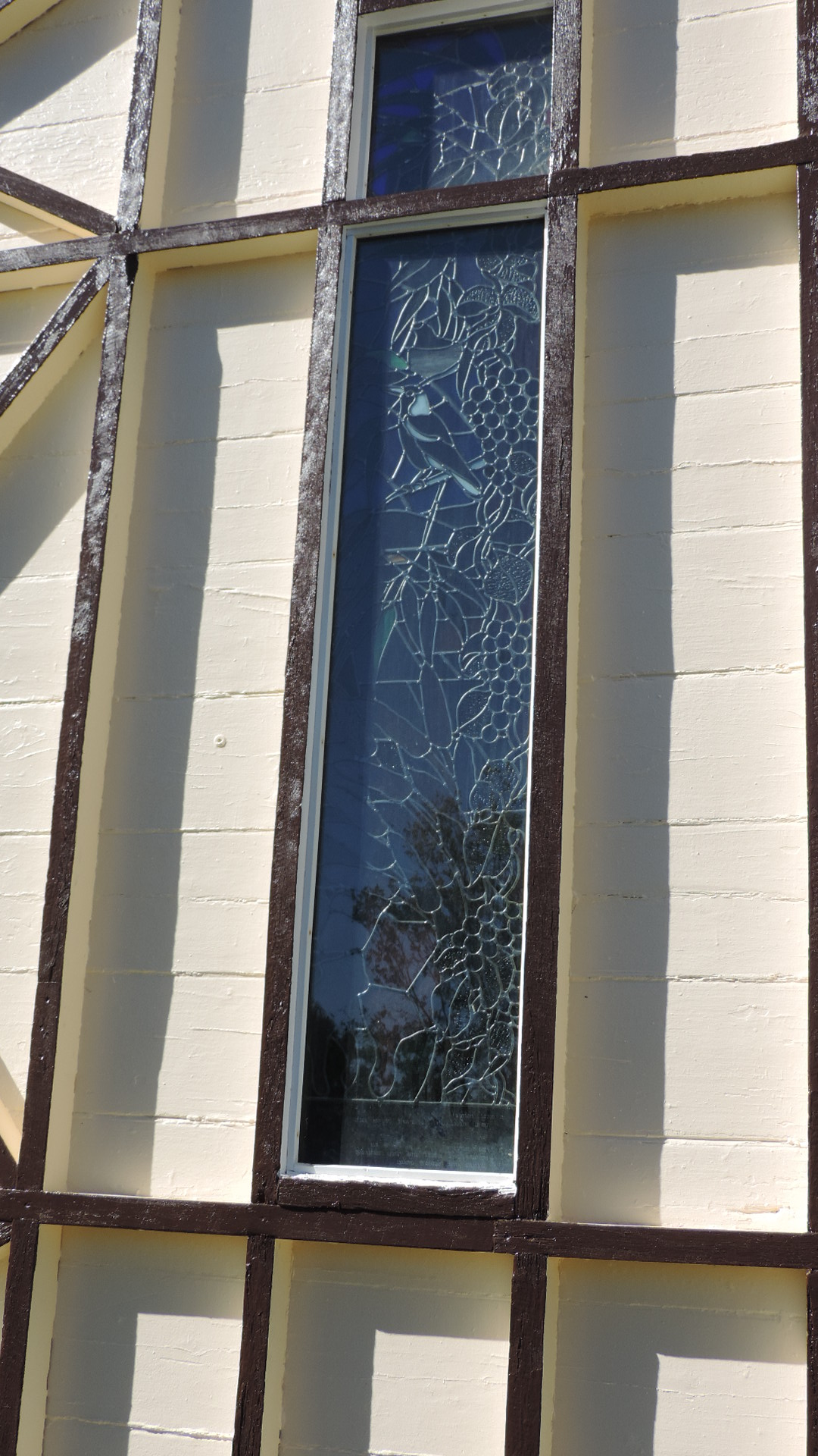 Construction detail, St Augustines Anglican Church, Leyburn, 2015